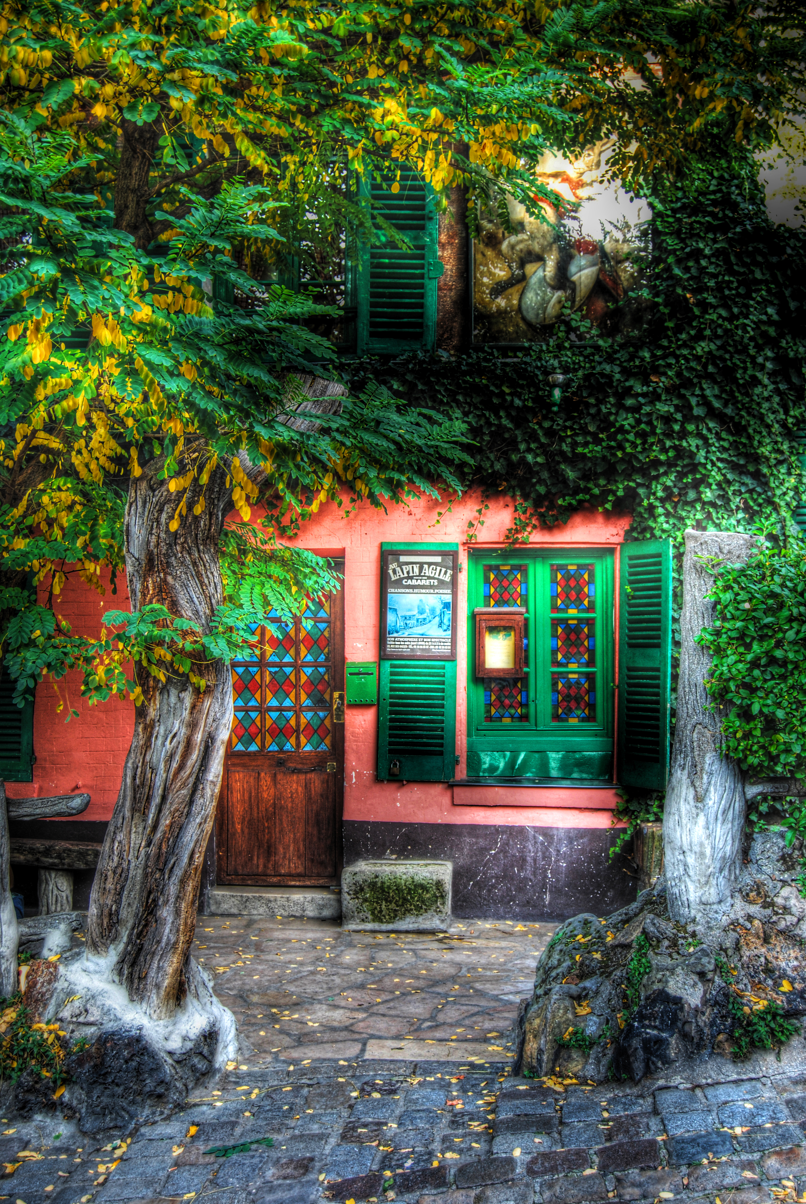 The Lapin Agile in Paris.